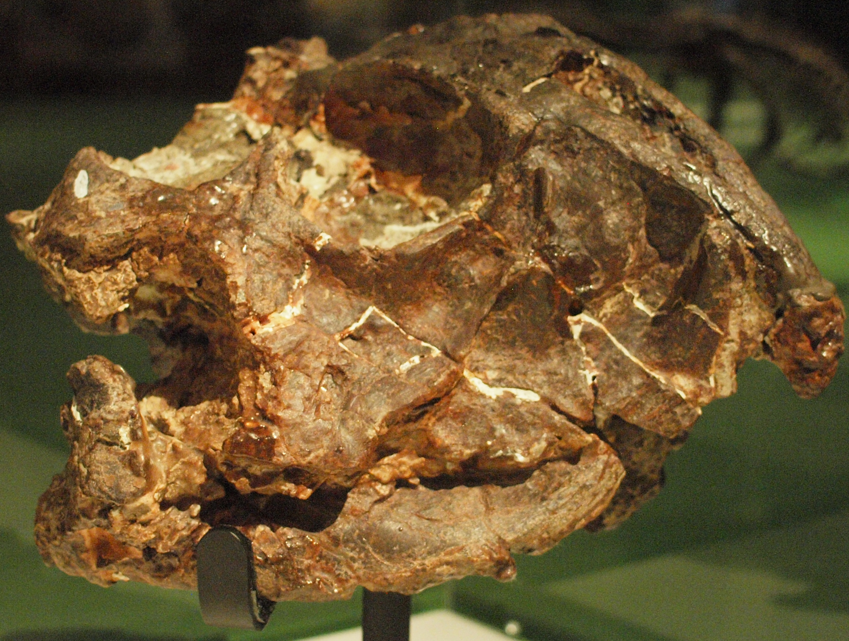 Skull of Hyperodapedon on Display at the Royal Ontario Museum (MC2 4572)